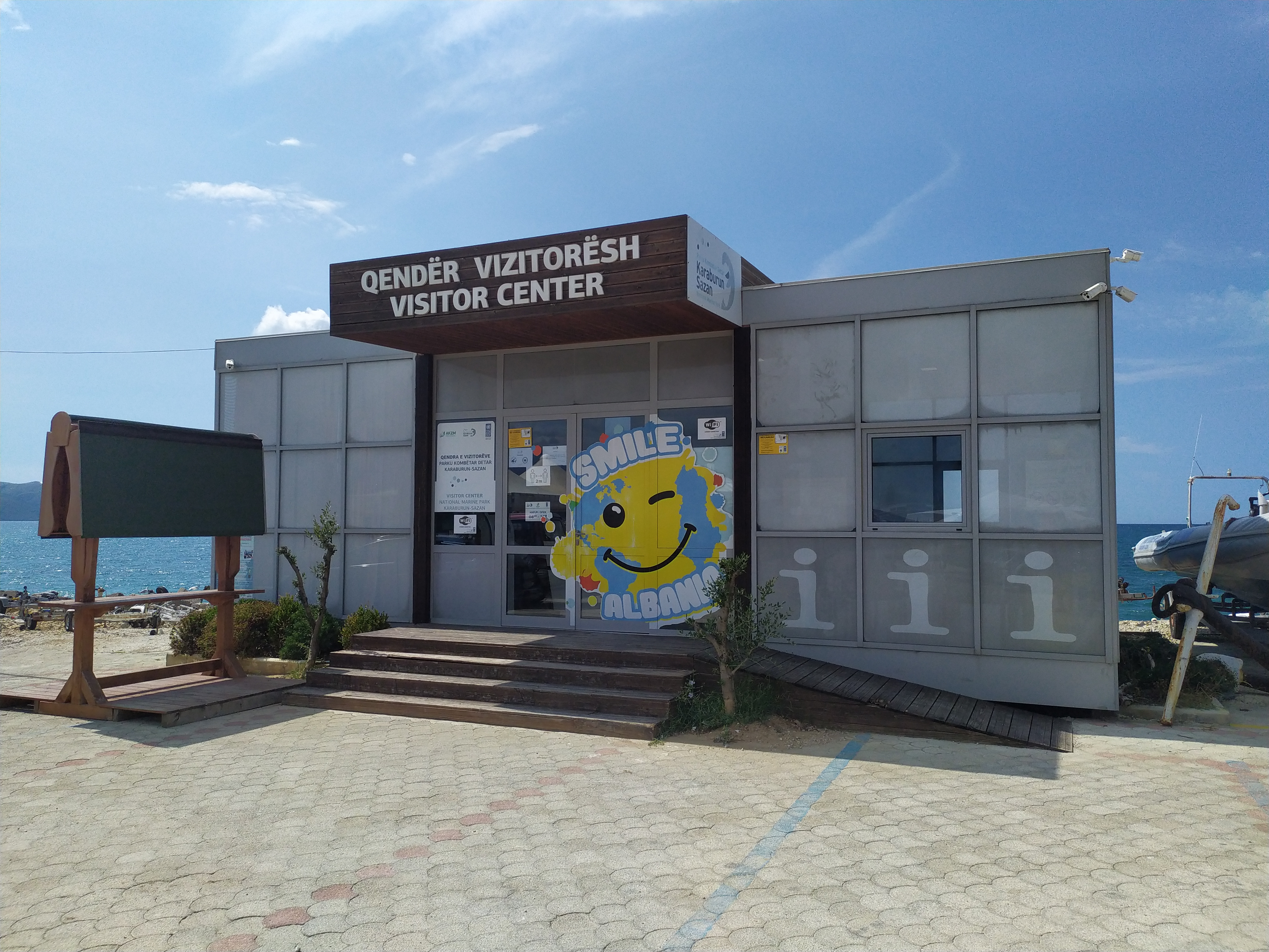 Tourist info point in Rradhimë for Karaburun - Sazan area